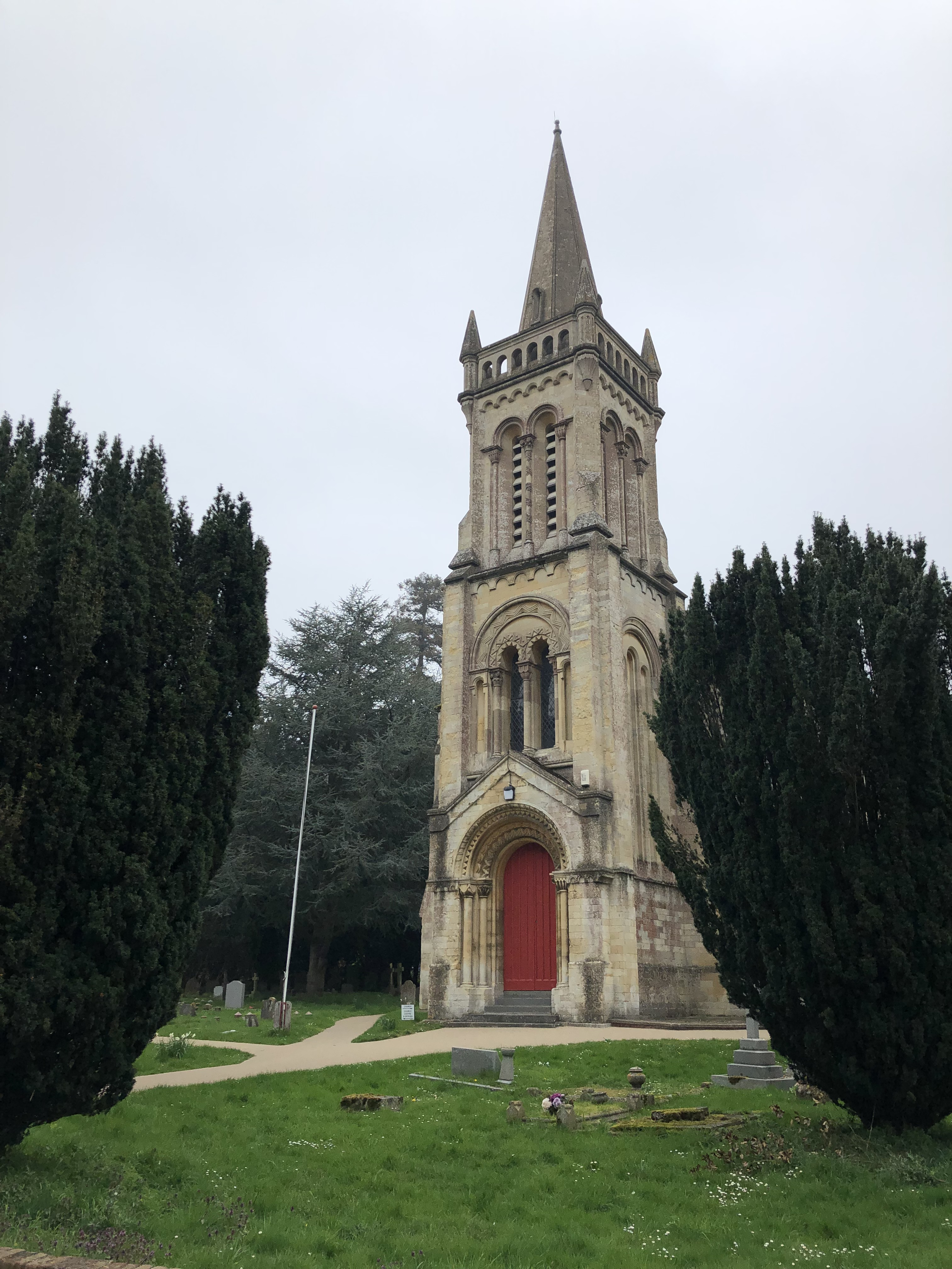 St Marys Church Newbury UK Side View on a Cloudy day